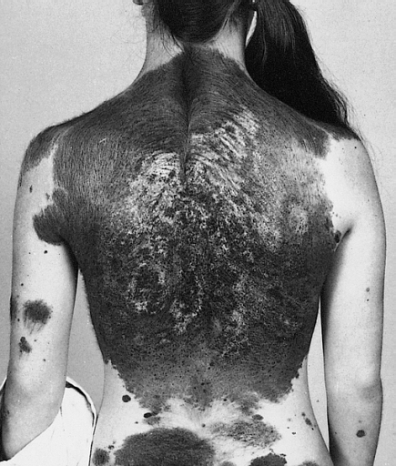 CNS: NEUROCUTANEOUS MELANOSIS This large "bathing trunk" nevus in a 13-year-old is one expression of this syndrome. Image and description are from the AFIP Atlas of Tumor Pathology, according to entry #406158 The Armed Forces Institute of Pathology Electronic Fascicles (CD-ROM Version of the Atlas of Tumor Pathology) contain U.S. Government work which may be used without restriction Pathology Education Instructional Resource